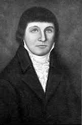 Richard Caswell (1729-1789), governor of North Carolina